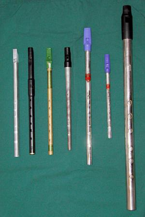 Tin whistles: Overton aluminum D by Colin Goldie, Tony Dixon PVC D, Feadóg brass D, all cylindrical; Clarke "Sweetone" D, conical; Generation nickel low Bb and high G; Howard low D.